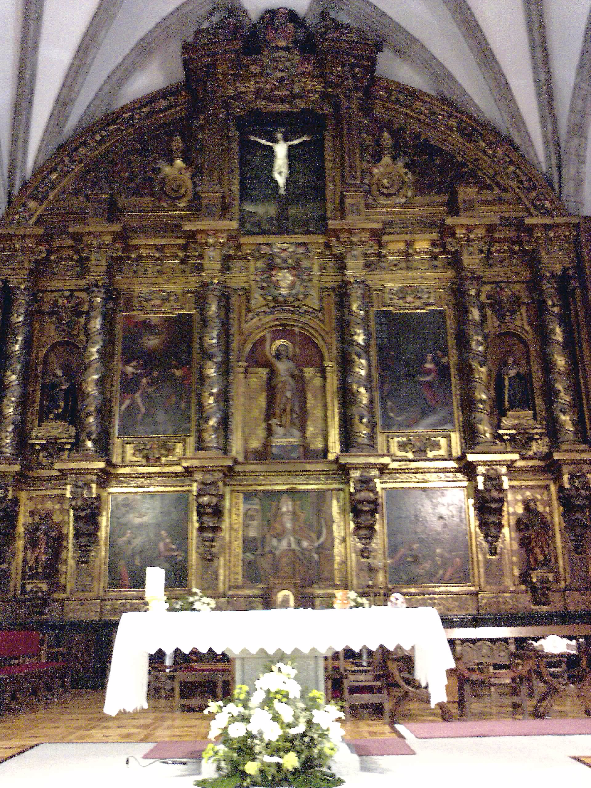 en las navas